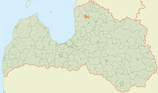 Location of Brīvzemnieki Parish in Latvia